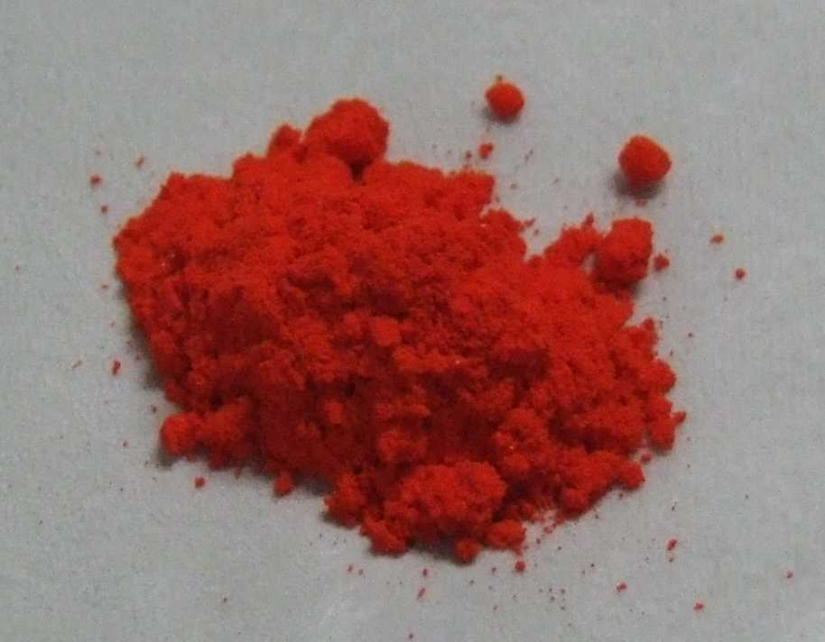 Rubrene crystals